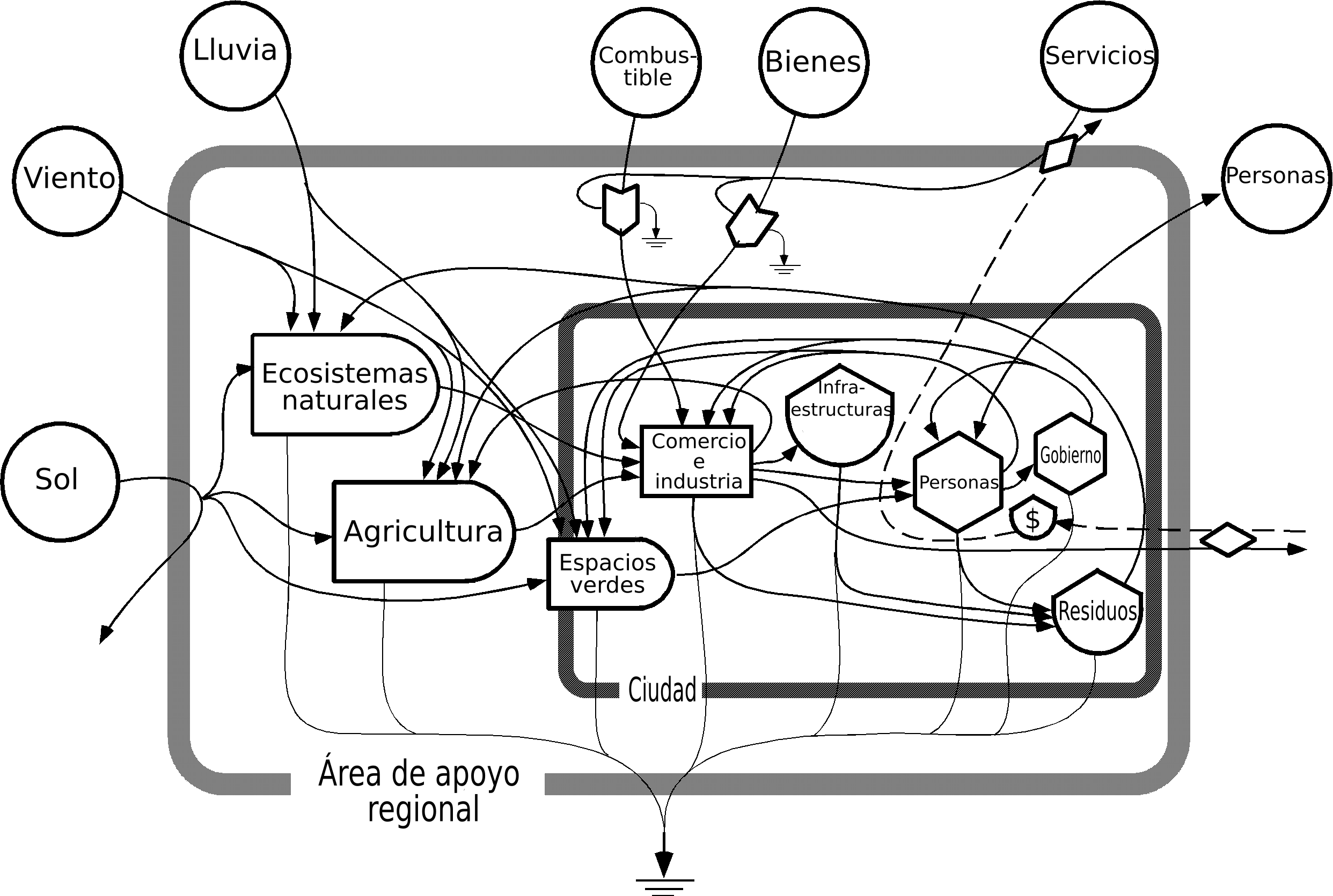 A systems diagram of a city embedded in its support region showing the environmental energy and non renewable energy sources that drive the region and city system